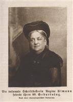 Photograph of the Austrian educator, editor and women's movement activist Regine Ulmann (1847-1938).